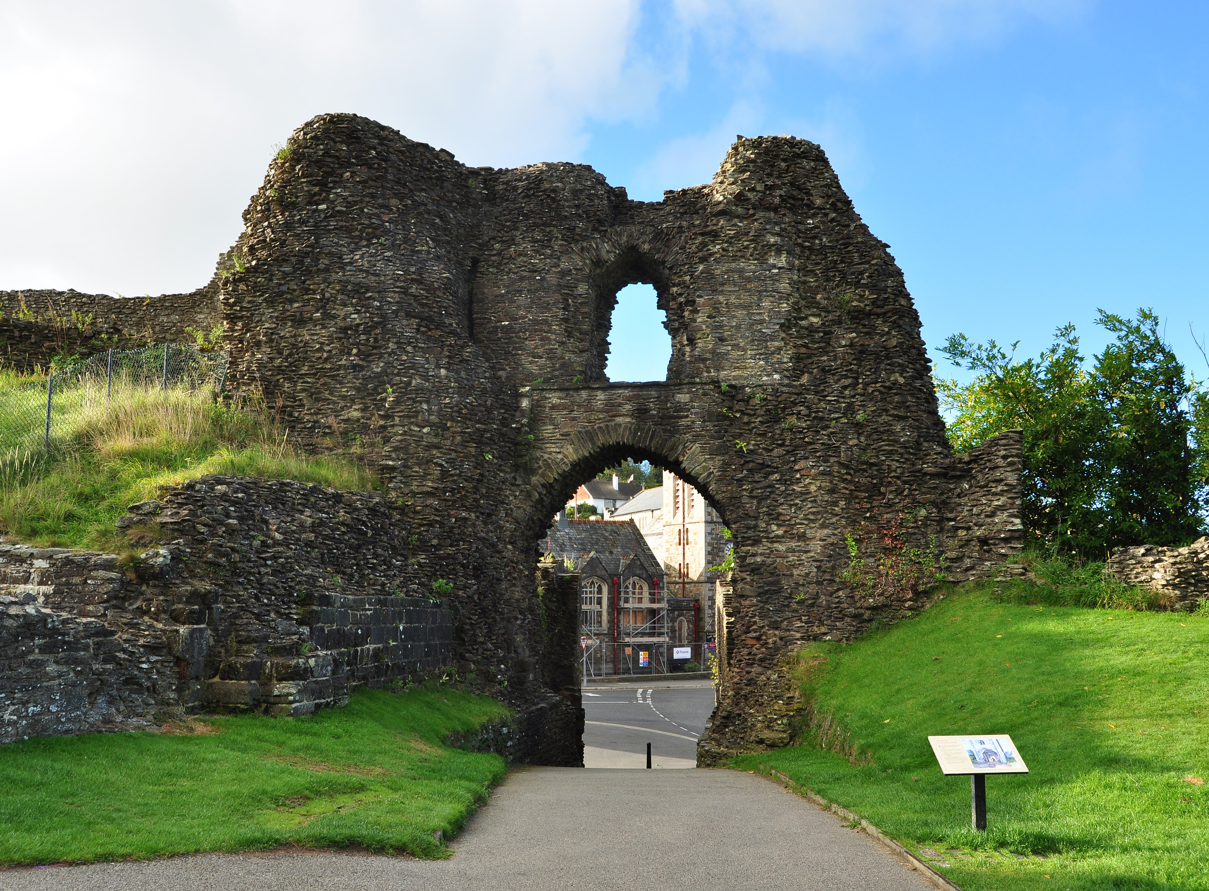 The inner side of the gatehouse of Launceston Castle in Cornwall.